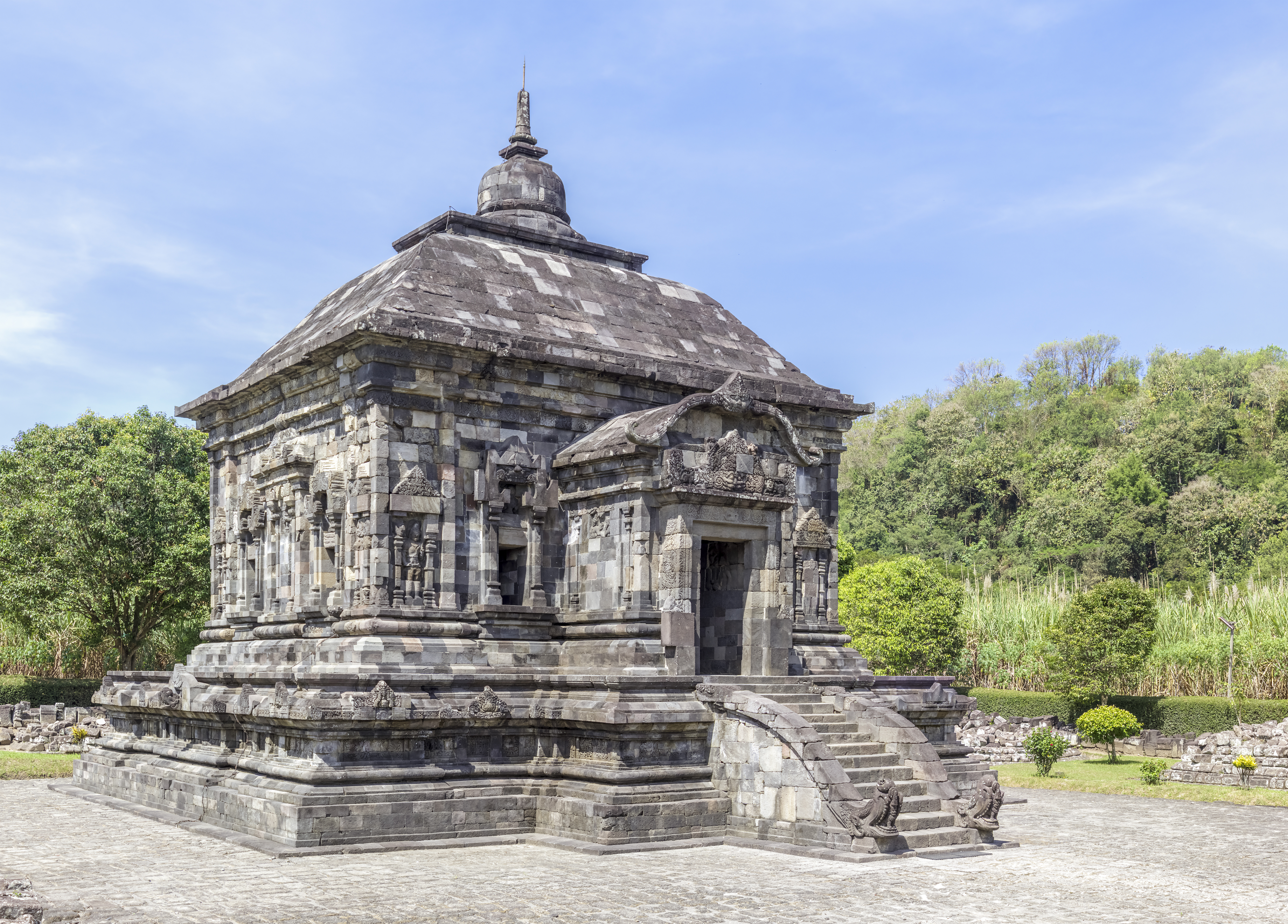 Banyunibo Temple, 2014-05-31